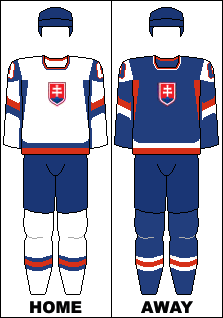 The home and away jerseys of the Slovak national ice hockey team with the Slovak coat of arms in the middle).